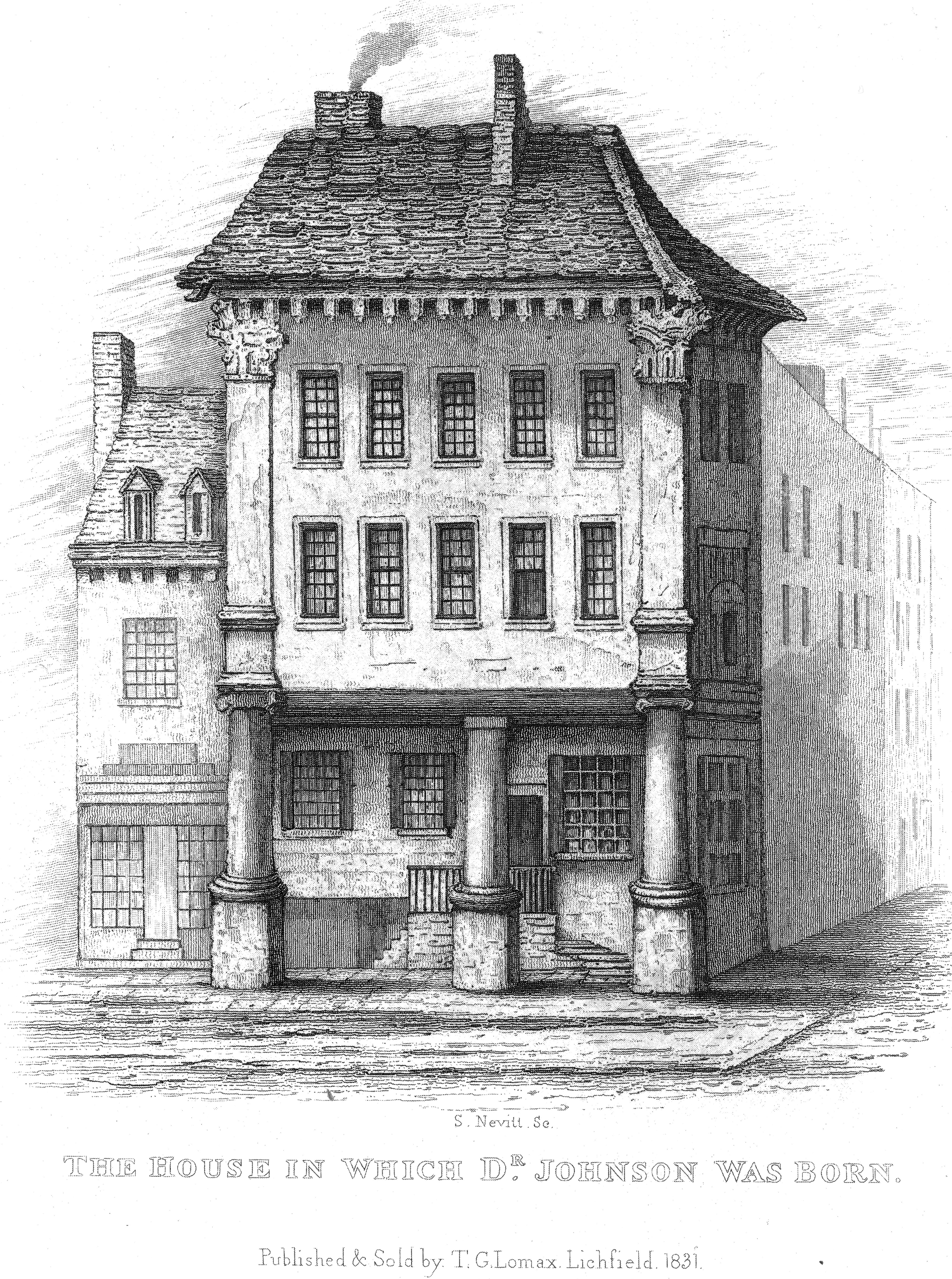 Engraving of the Birthplace of Dr Samuel Johnson in 1830. The building is now the Dr Johnson Birthplace Museum and Bookshop.